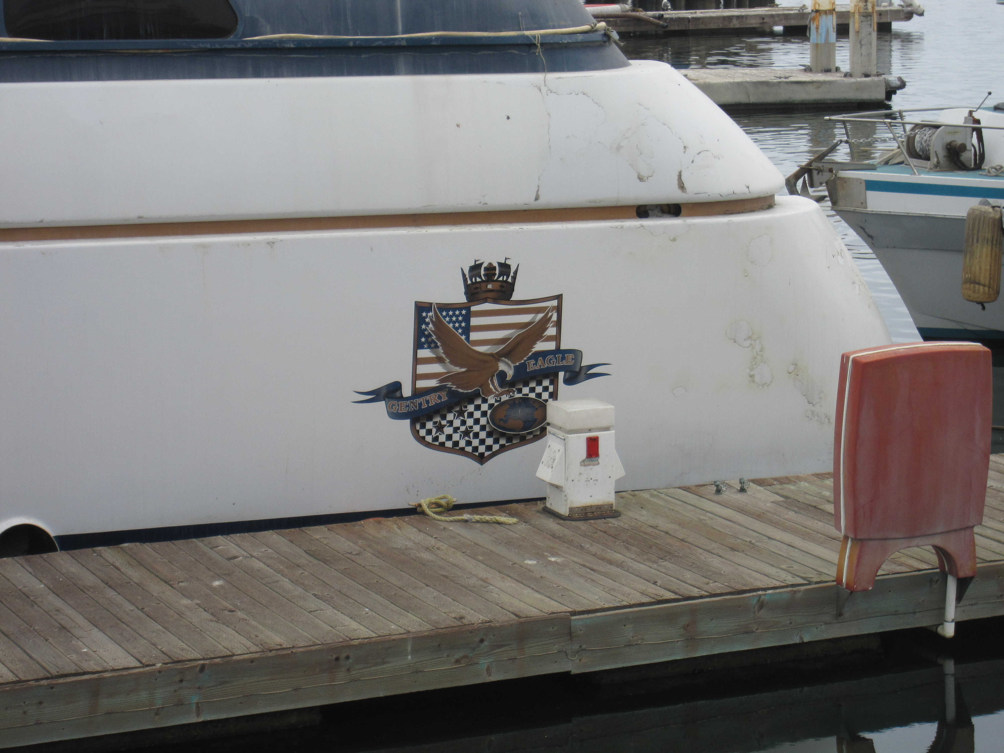 Picture of the Gentry Eagle race yacht.